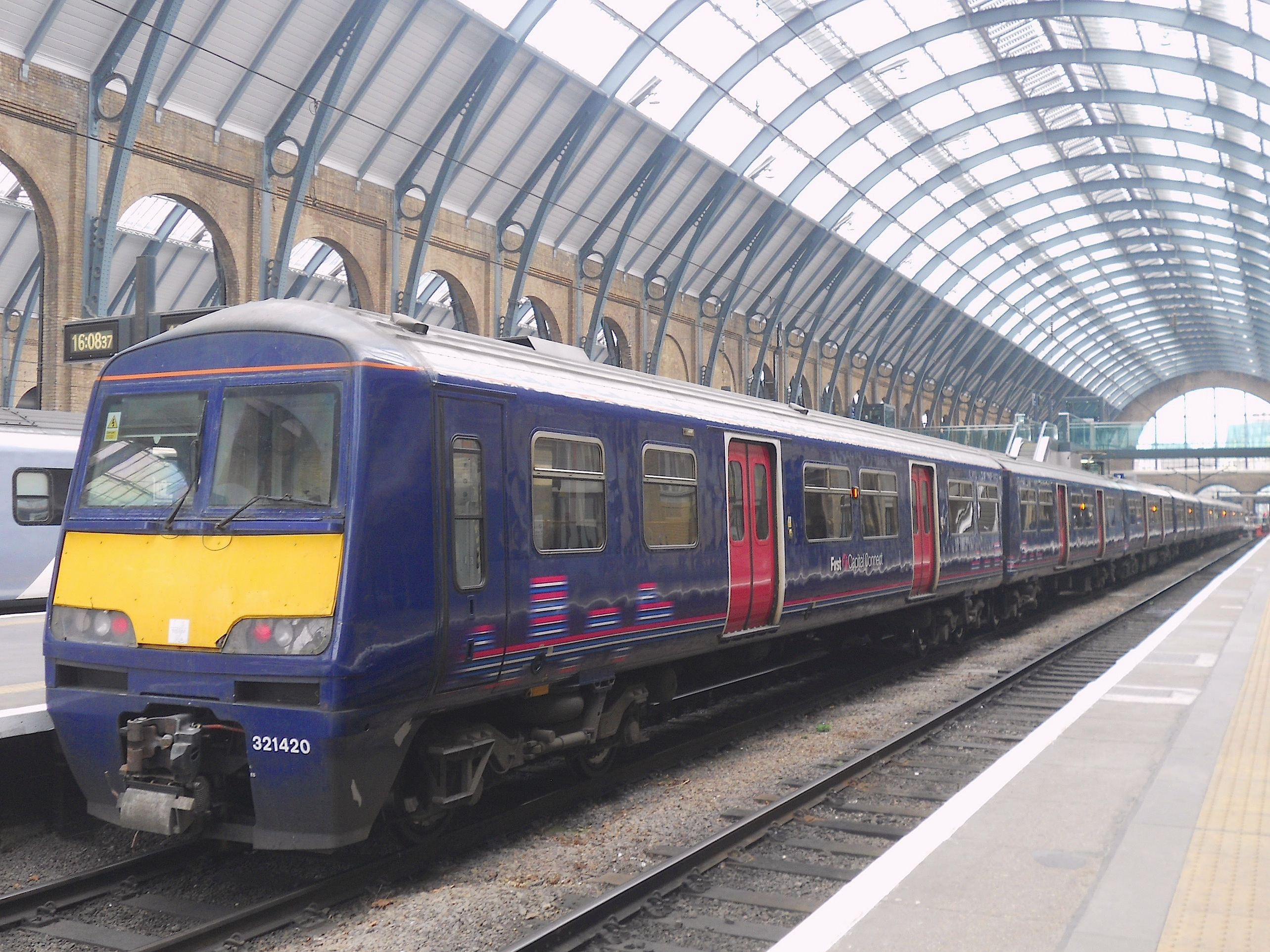 A pair of First Capital Connect Class 321 No. 321420 and 321405 coupled together at London Kings Cross